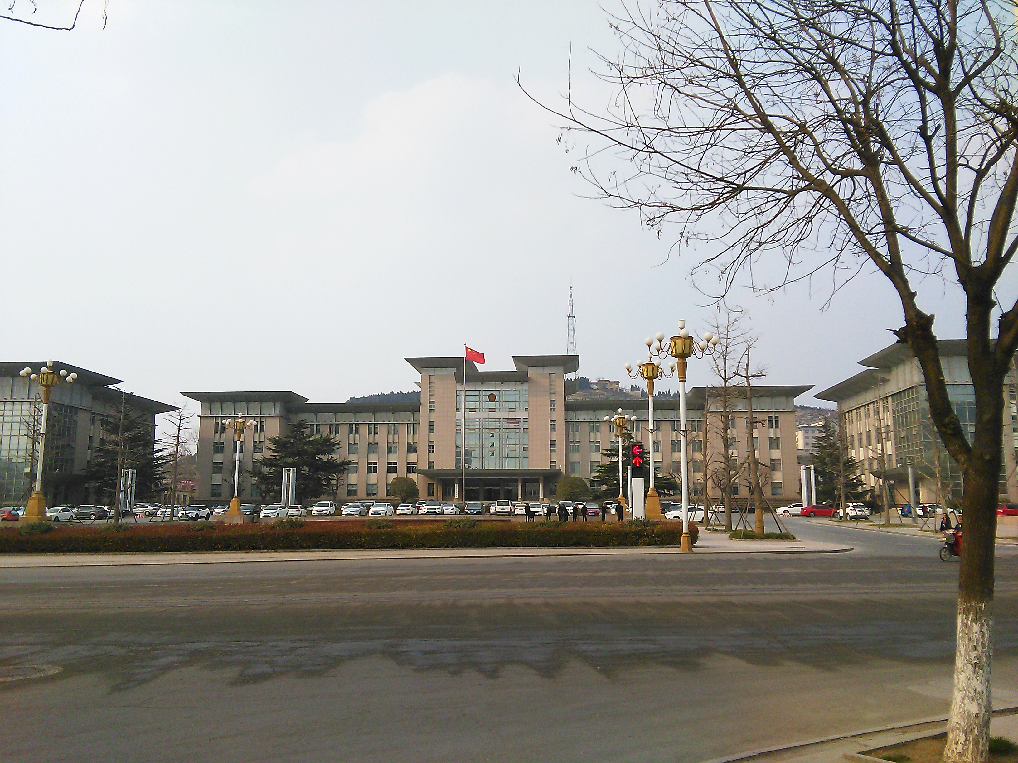 People's Government of Dongping County